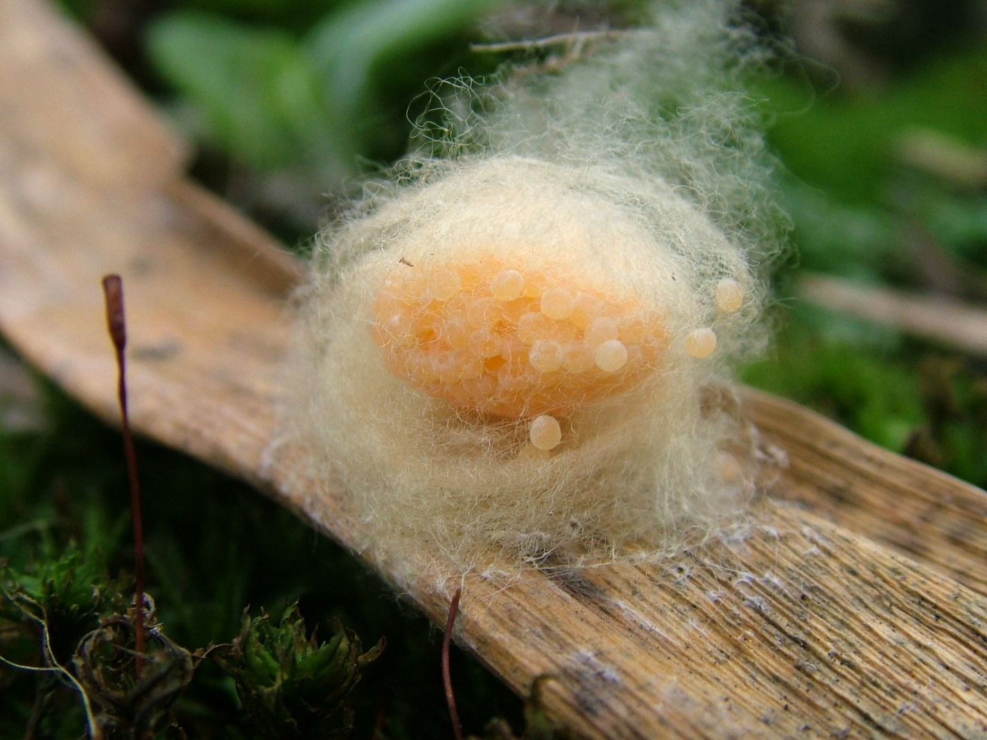 Eggs of a spider